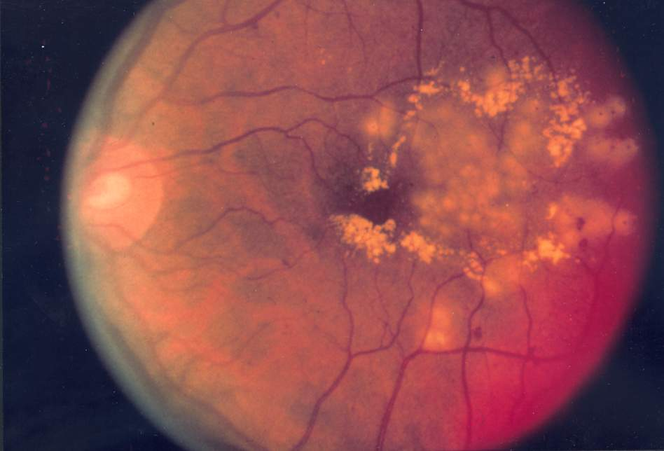 Fundus photo showing focal laser surgery for diabetic retinopathy. Description: Fundus photo showing focal laser surgery for diabetic retinopathy. Credit: National Eye Institute, National Institutes of Health Ref#: EDA10